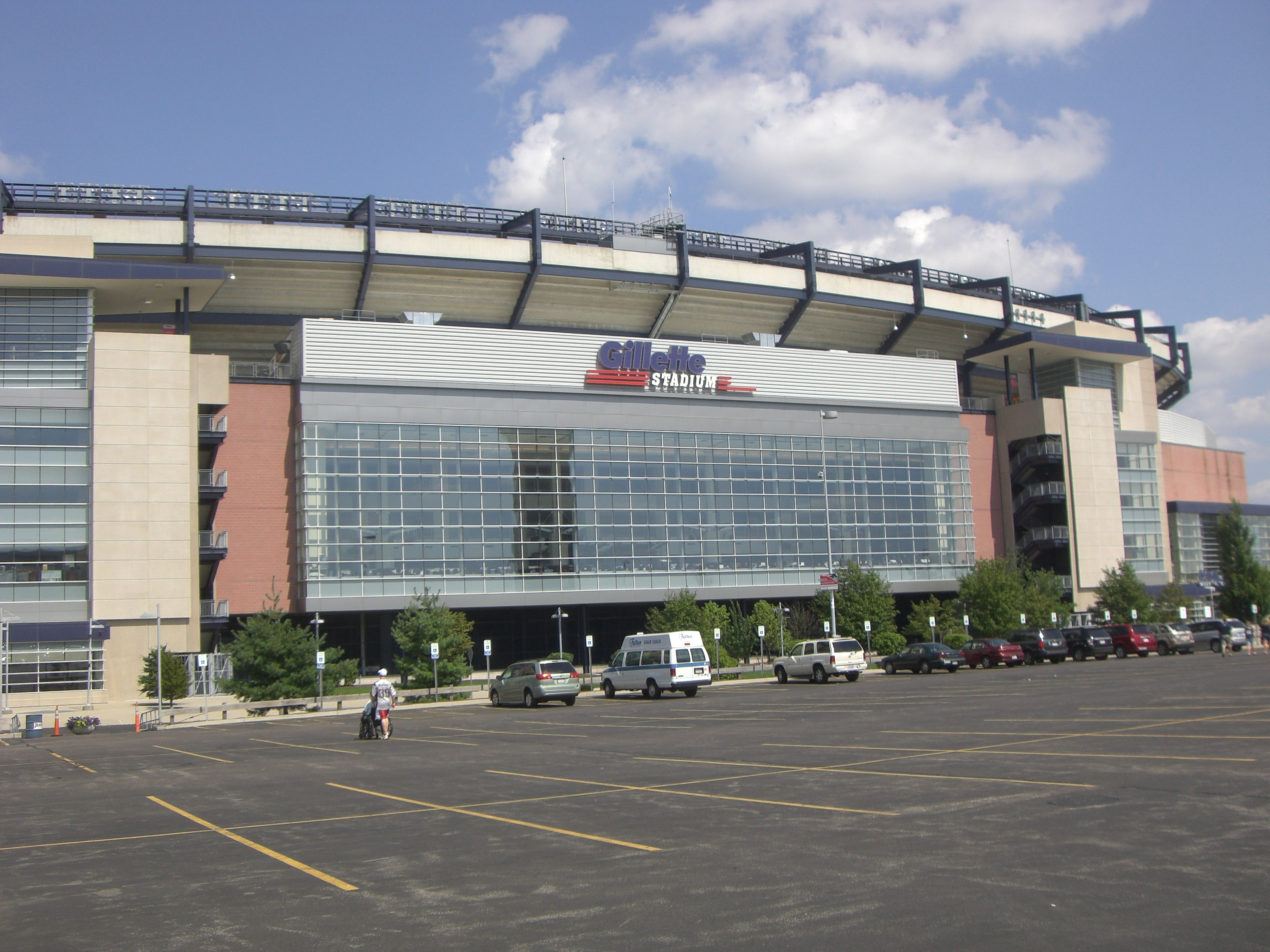 Gillette Stadium Outside Looking